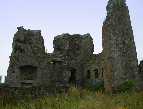 Douglas P. Bermingham